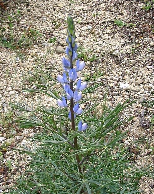 Lupin